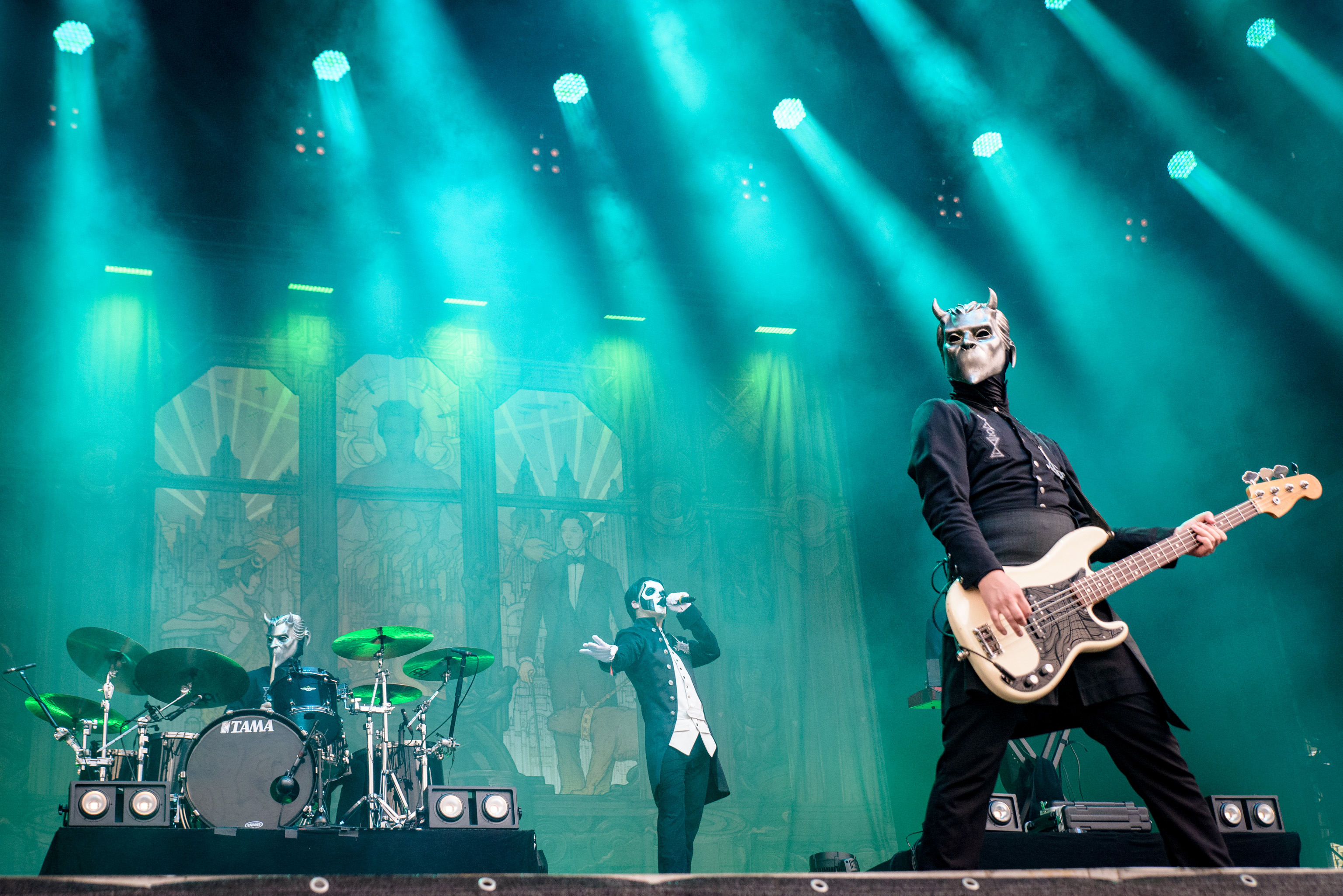 Ghost Live @ Rockavaria 2016